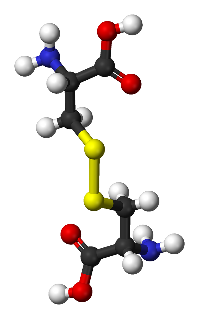 Ball-and-stick model of cystine